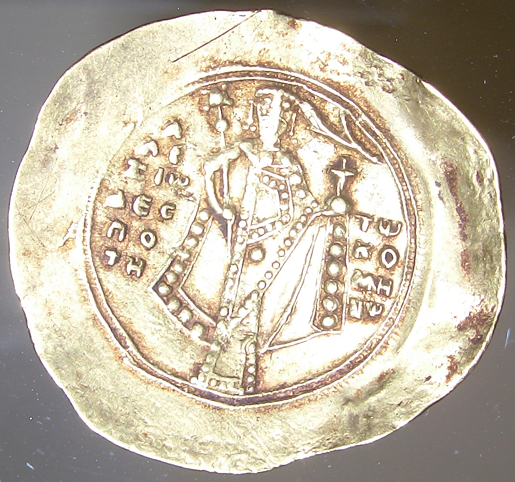 Byzantine golden coin in the collection of Stara Zagora's Regional historic museum